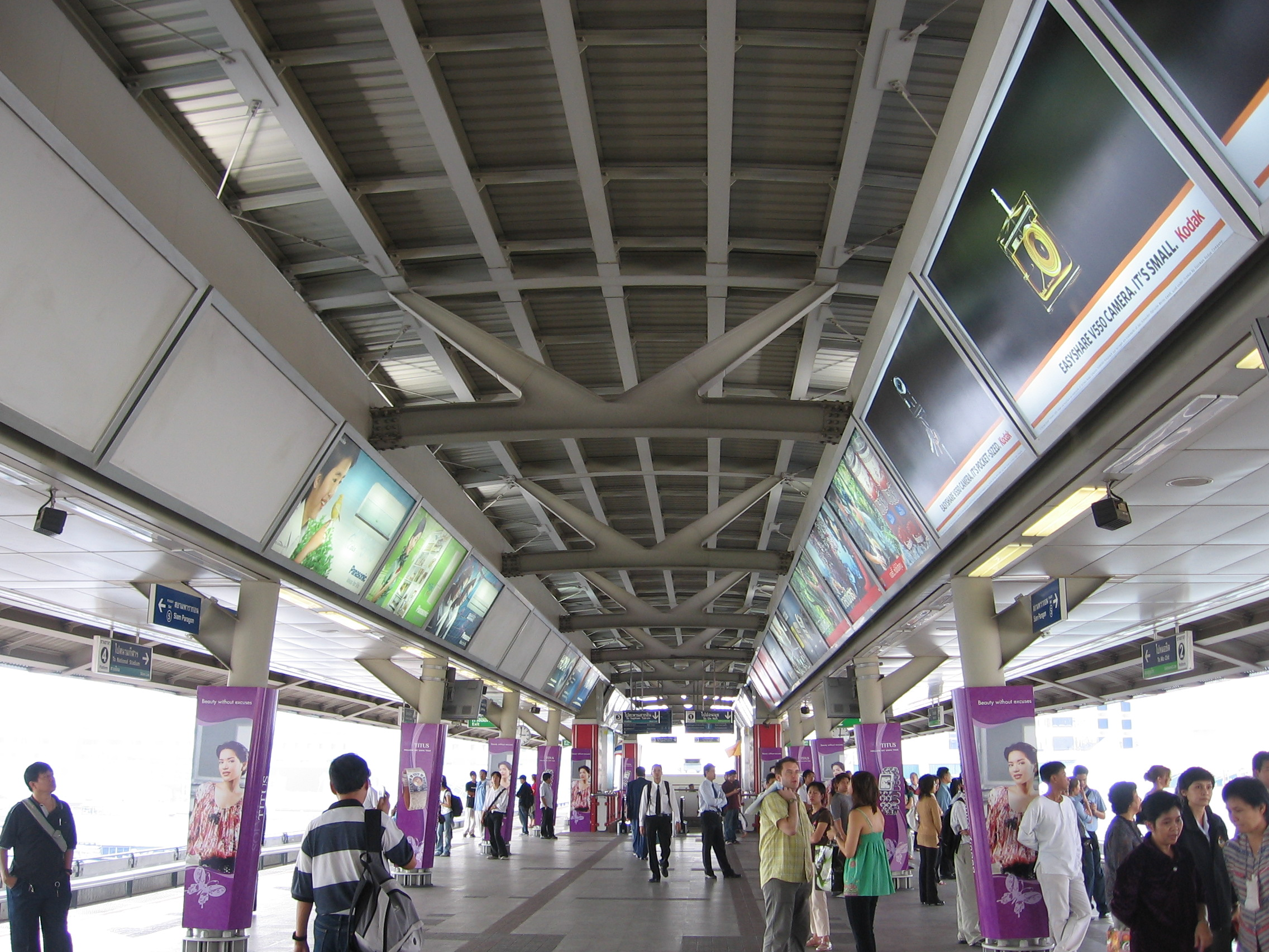 Platform of the Siam Station (Central Station). Own work.